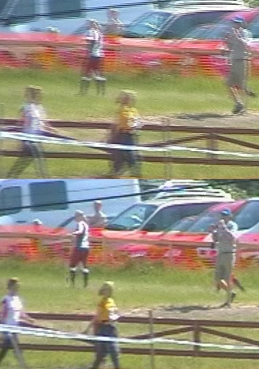 Difference between interlaced and deinterlaced video. Upper is interlaced and lower is deinterlaced.